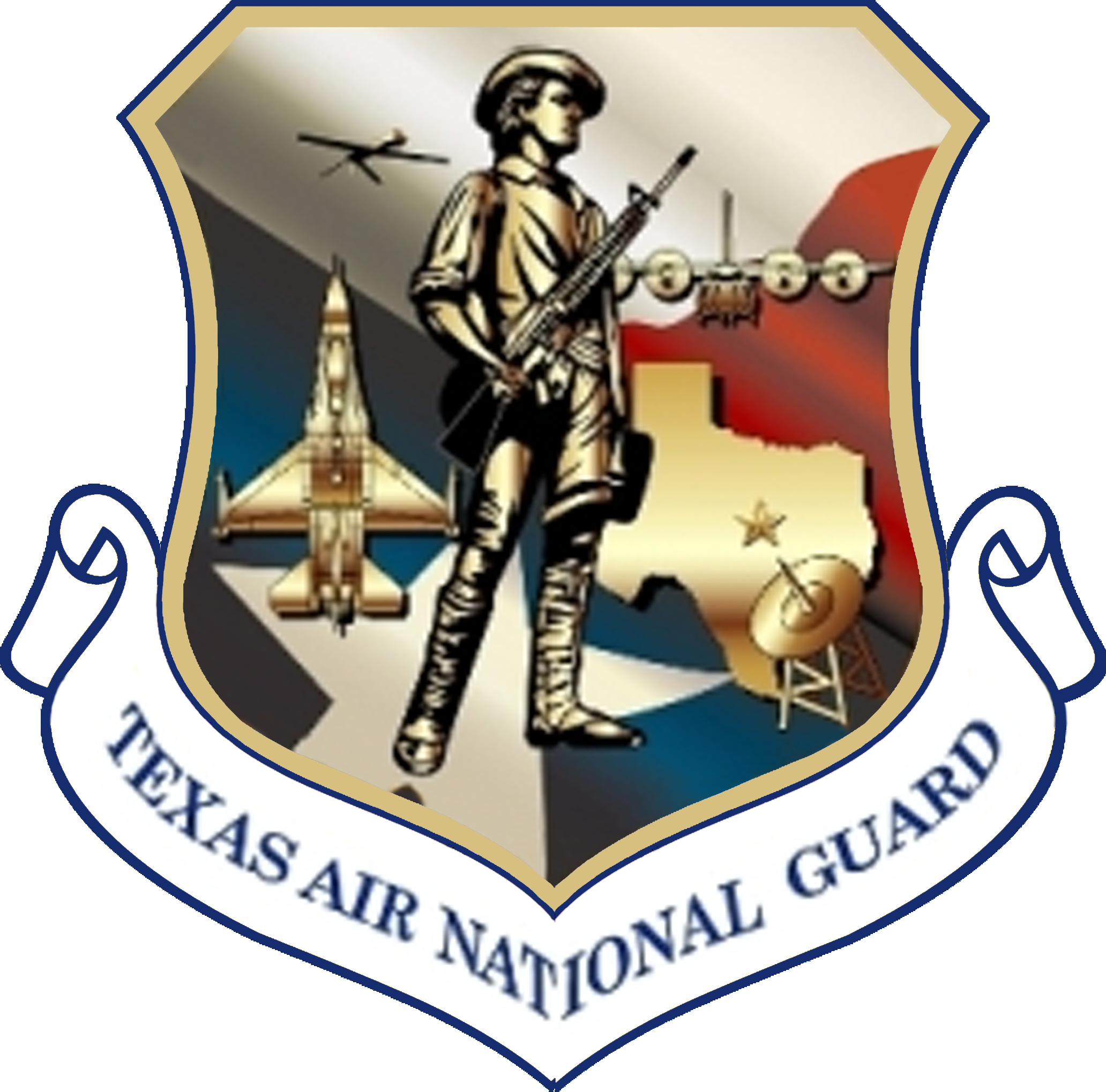 Emblem of the U.S. Air Force Texas Air National Guard.